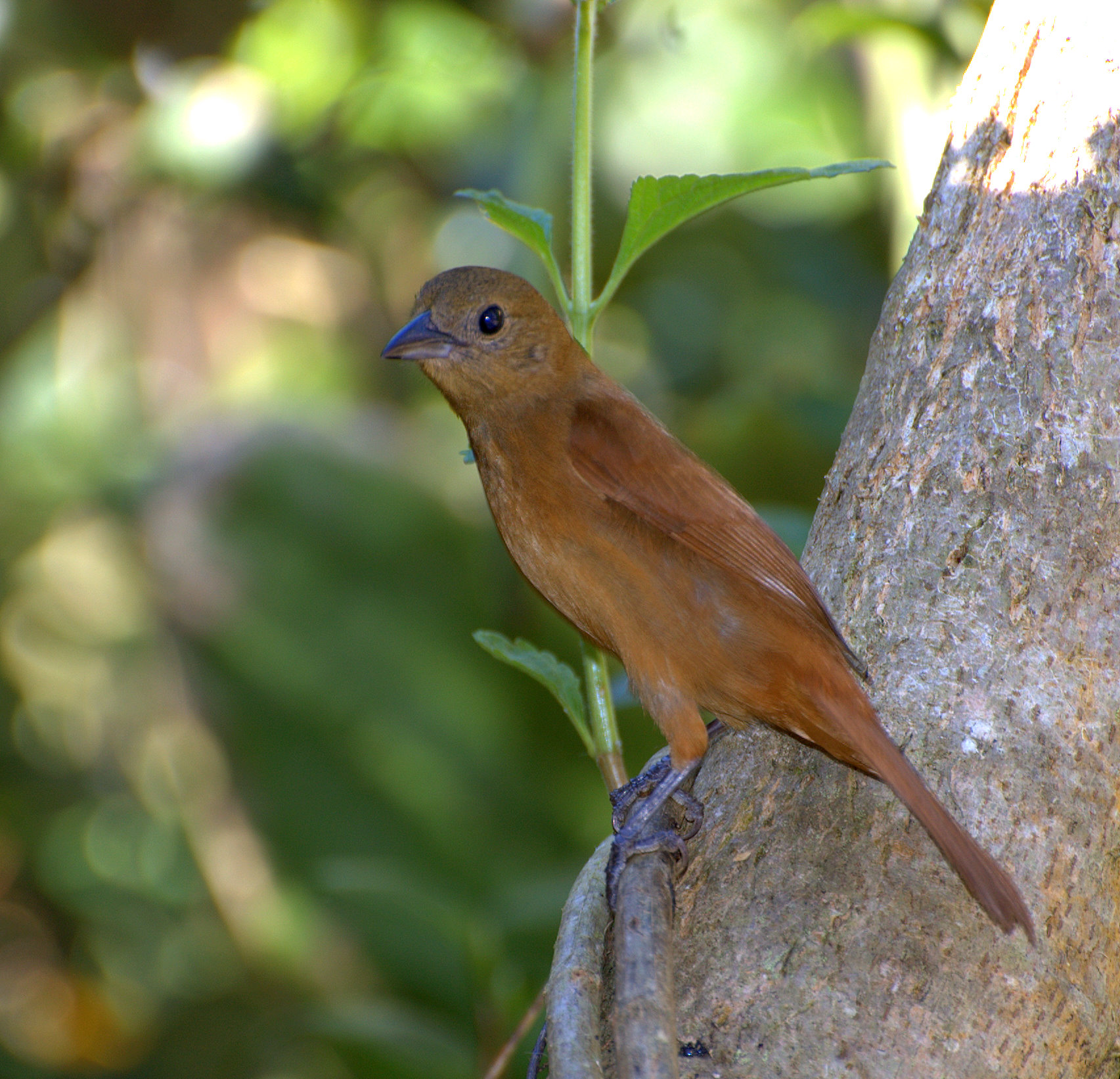 A Ruby-crowned Tanager (Tachyphonus coronatus), female